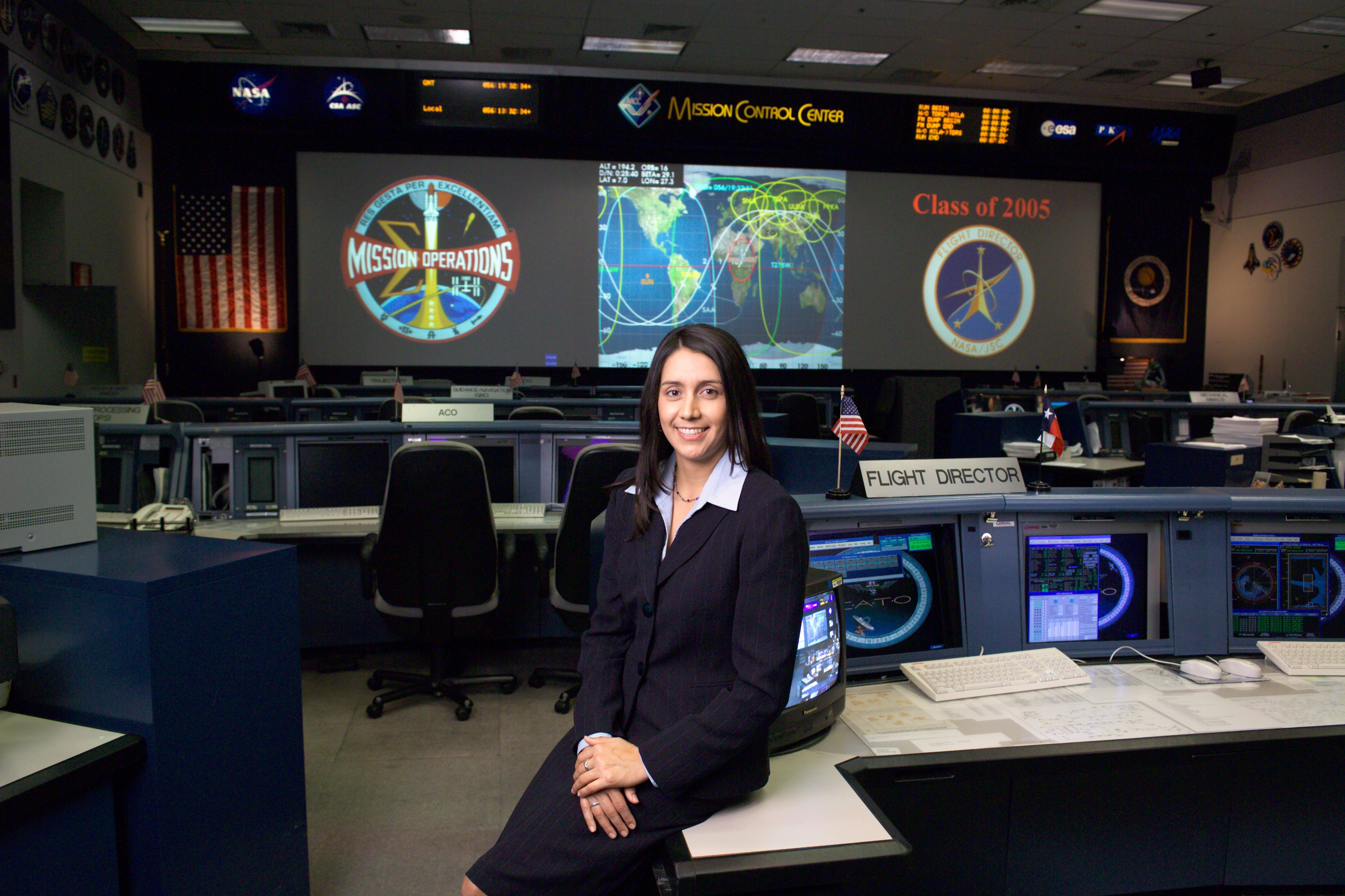 The first person of Hispanic heritage to lead Mission Control started working shifts as a flight director for the International Space Station at NASA's Johnson Space Center, Houston. Ginger Kerrick completed more than 700 hours of training and began active duty in September. Image #: jsc2005e08483 Date: February 25, 2005